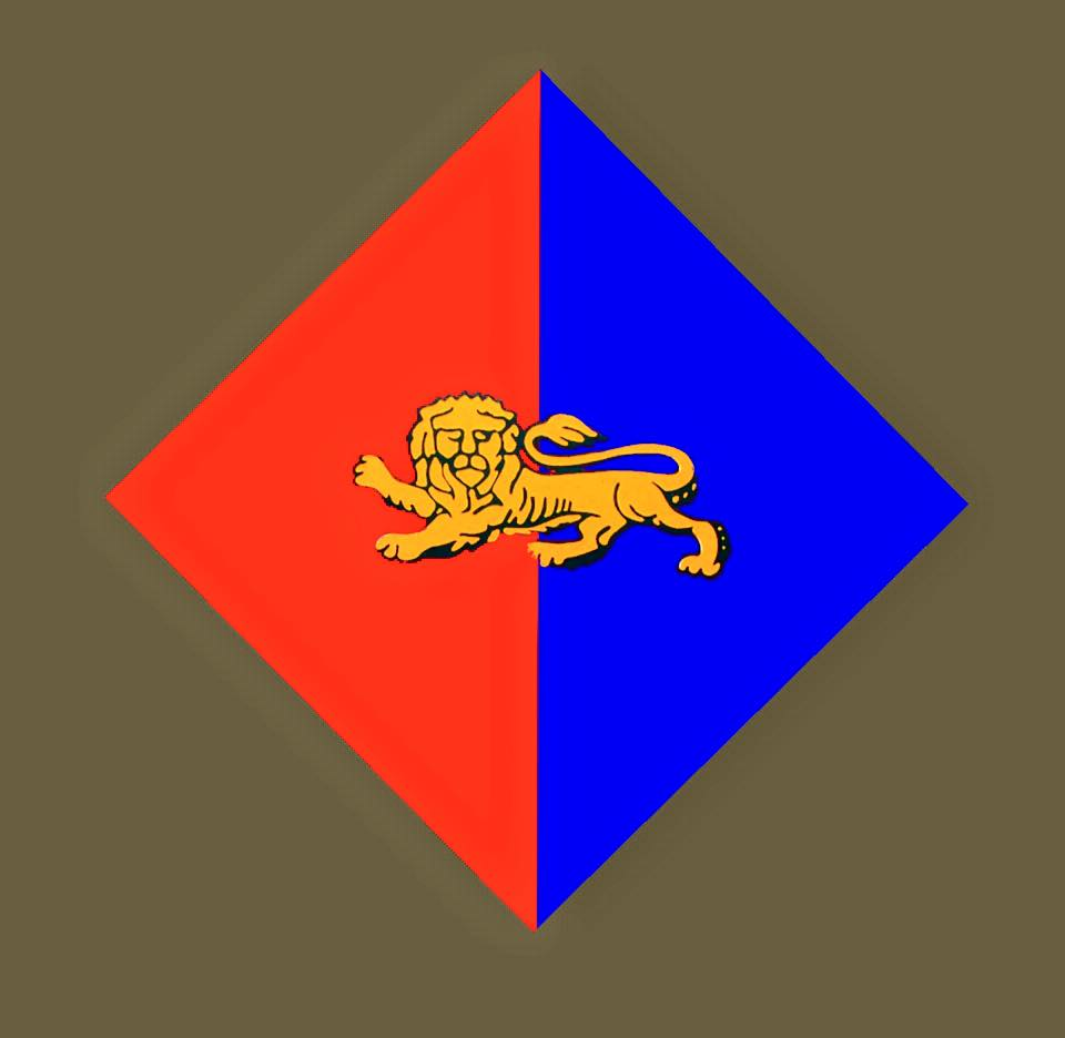 Tactical Recognition Flash of the 56th Anti-tank Regt. Royal Artillery (Kings Own)